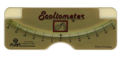 Scoliometer (Inclinometer) - scoliosis screening device Copyright (c) 2006 Skoliose-Info-Forum.de GNU Free Documentation License 1.2